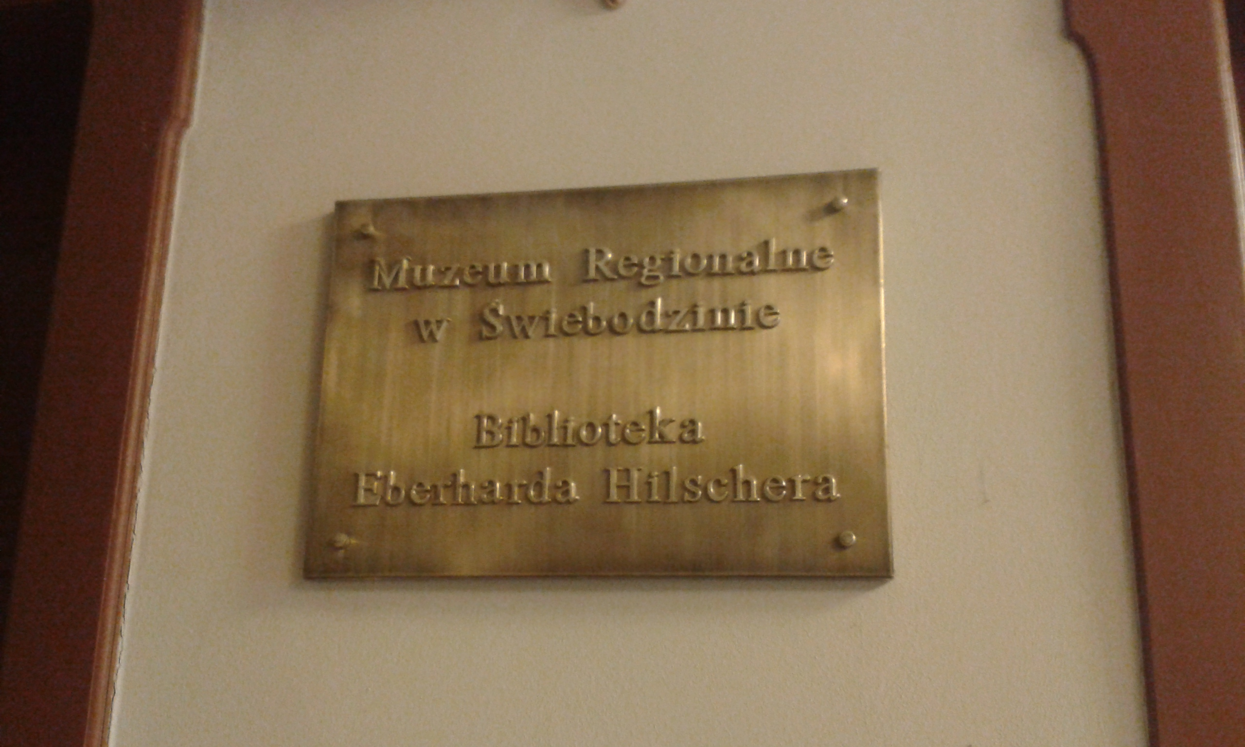 Board, located in town hall in Świebodzin (John Paul II Square, Poland), commemorating a local poet for donating his private library.